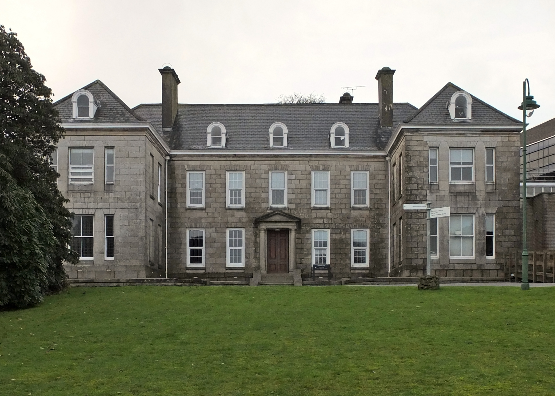 Early 18th century.